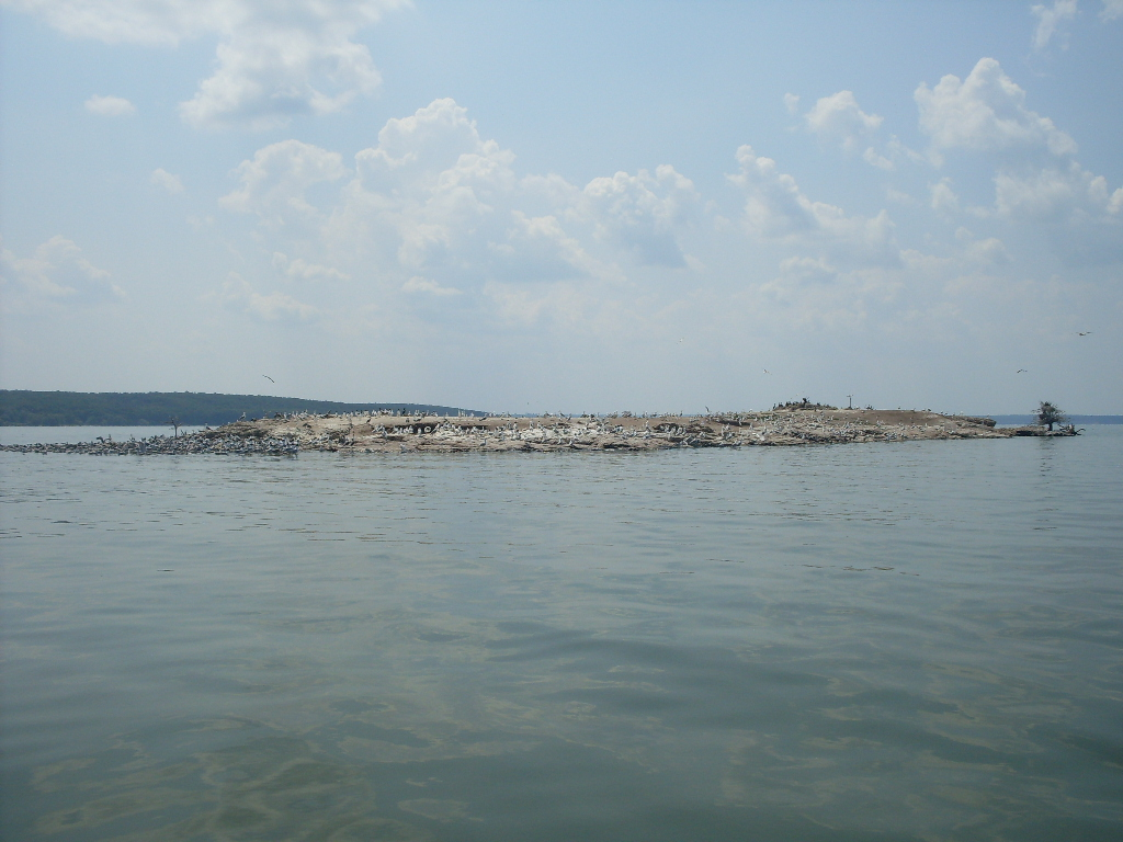 The local nature protected area "Ptashinyj bazar" (Svitlovodsk district, Kirovograd region, Ukraine)